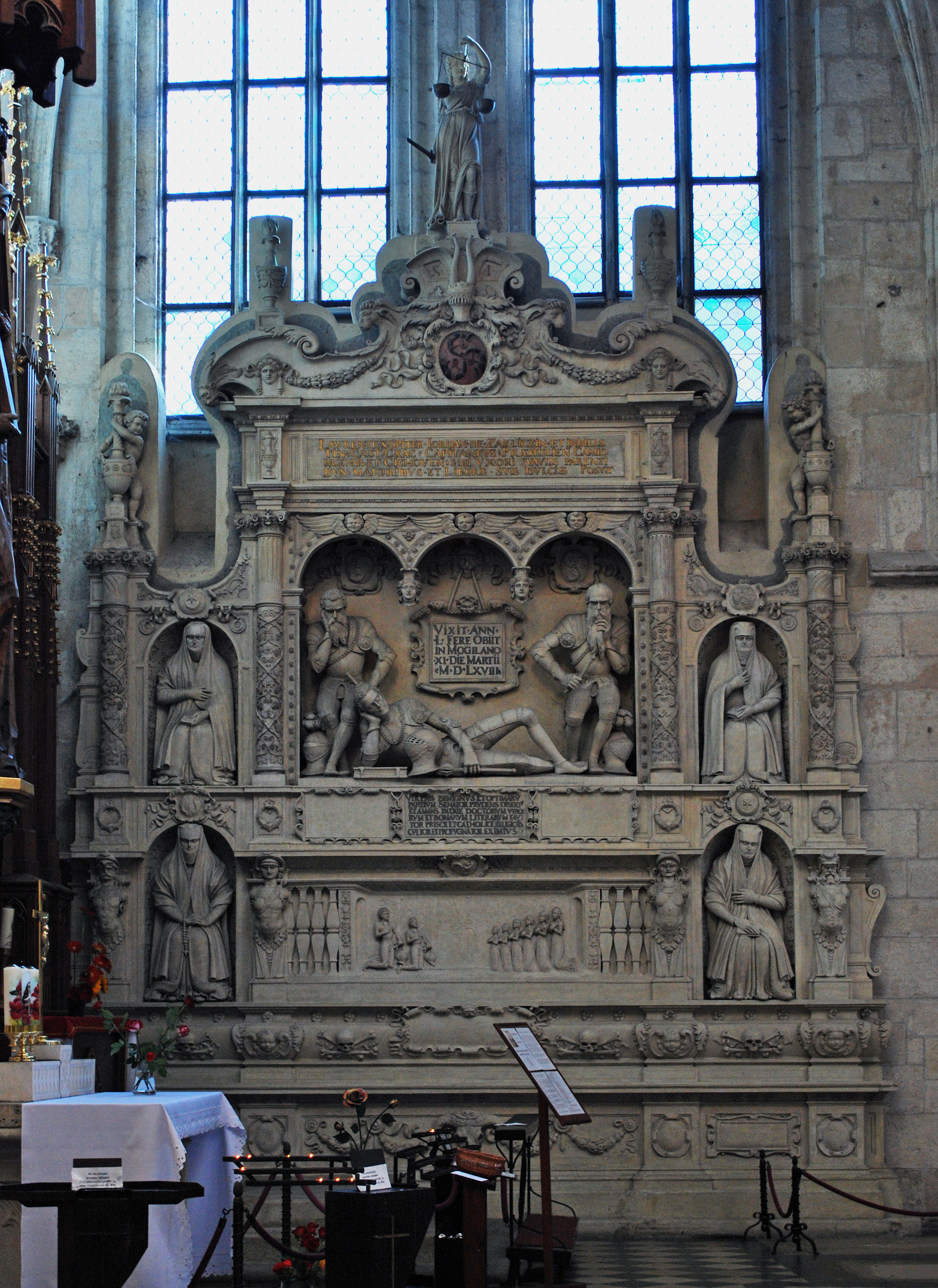 Church of St. Catherine of Alexandria and St. Margaret, Headstone of Spytek Jordan (1603 by Santi Gucci), 7-9 Augustiańska street, Kazimierz, Kraków, Poland